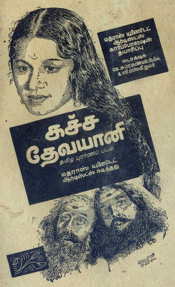 This is an advertising poster of 1941 Tamil film Kacha Devayani